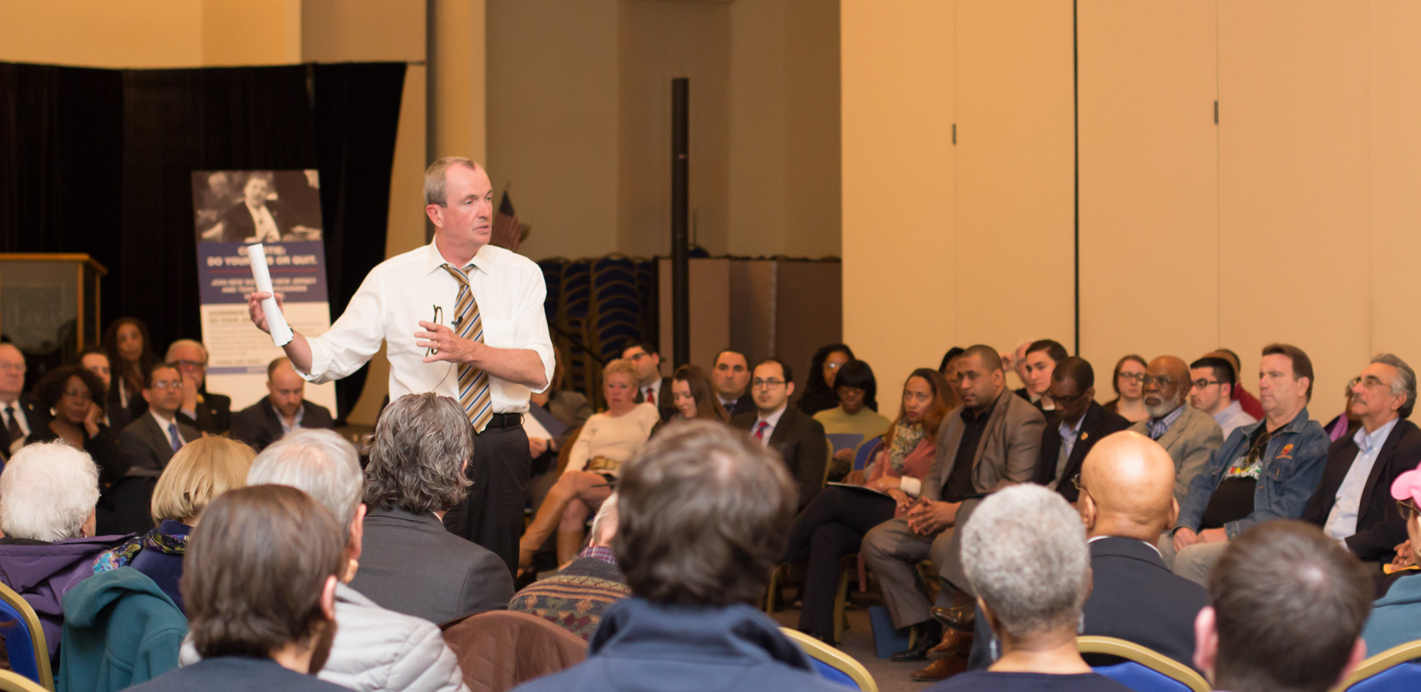 Phil Murphy for Governor